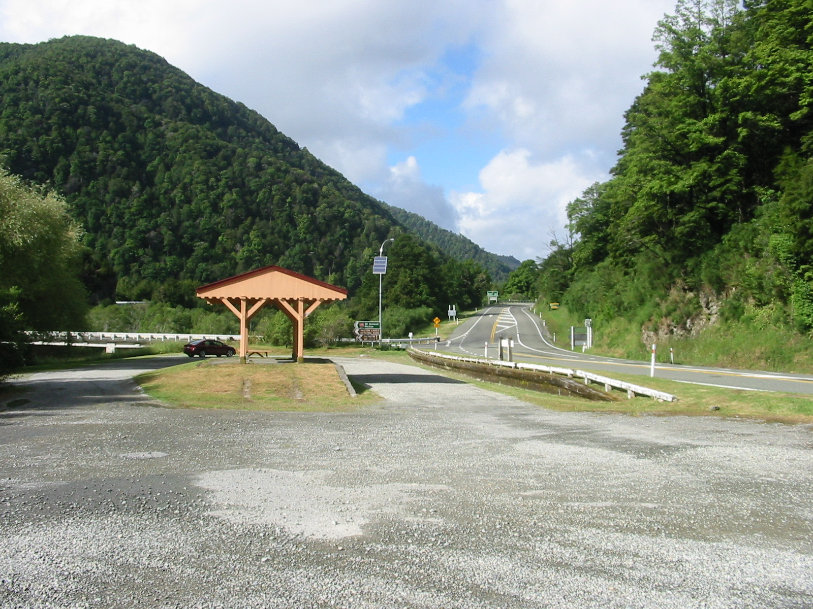 The old railway station at Kawatiri Junction. View is south along State Highway 6, heading to Murchison and the West Coast. Highway 63 (to Nelson Lakes National Park and Blenheim) branches off to the left. New Zealand